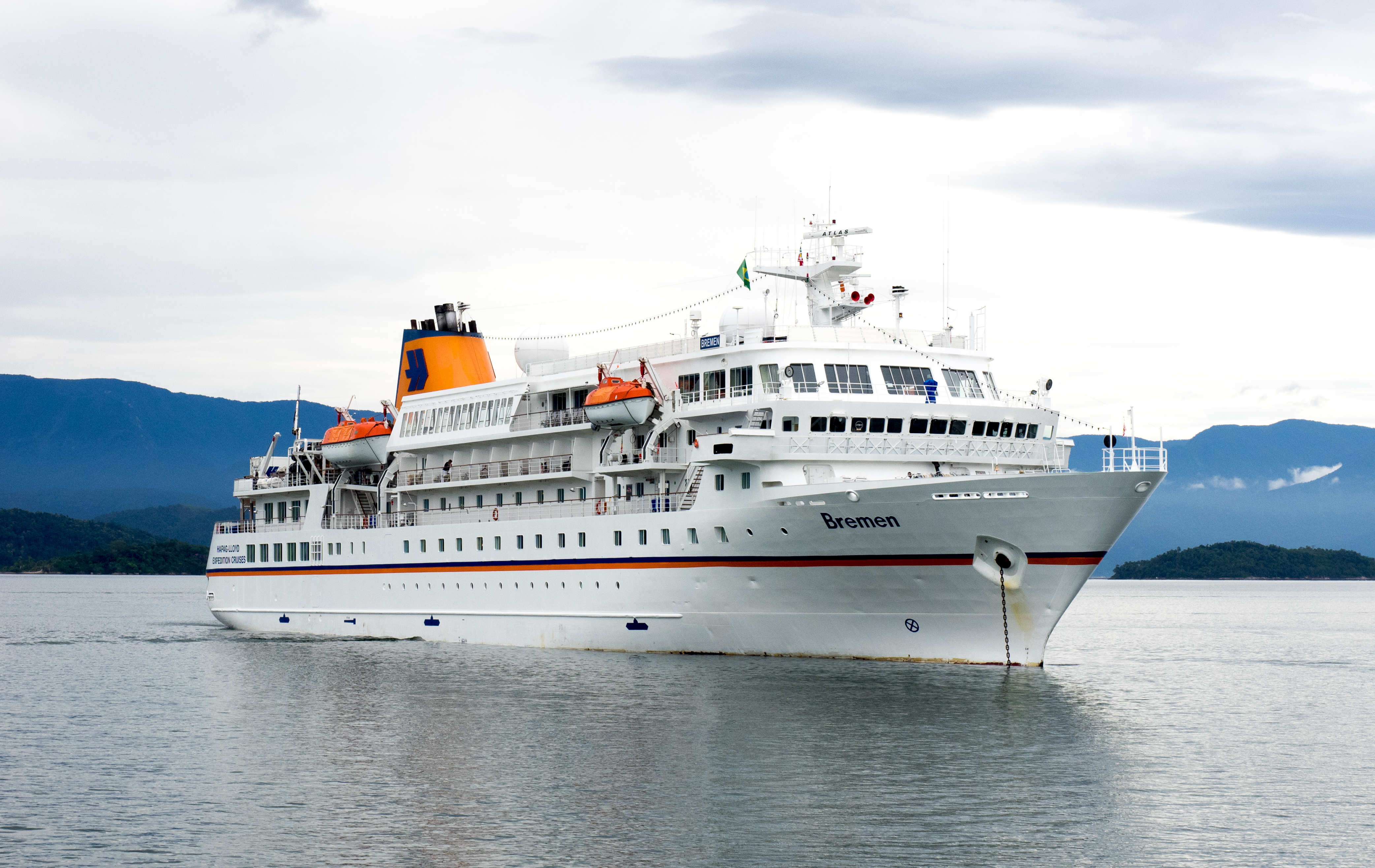 MS Bremen in Paraty, Brazil